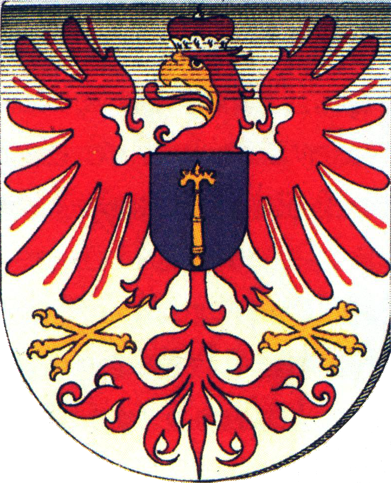 Coat of arms of Dorotheenstadt.